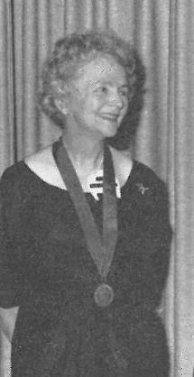 This is a photo from the Australian Journal of Hospital Pharmacy of Mavis Sweeney receiving her award.